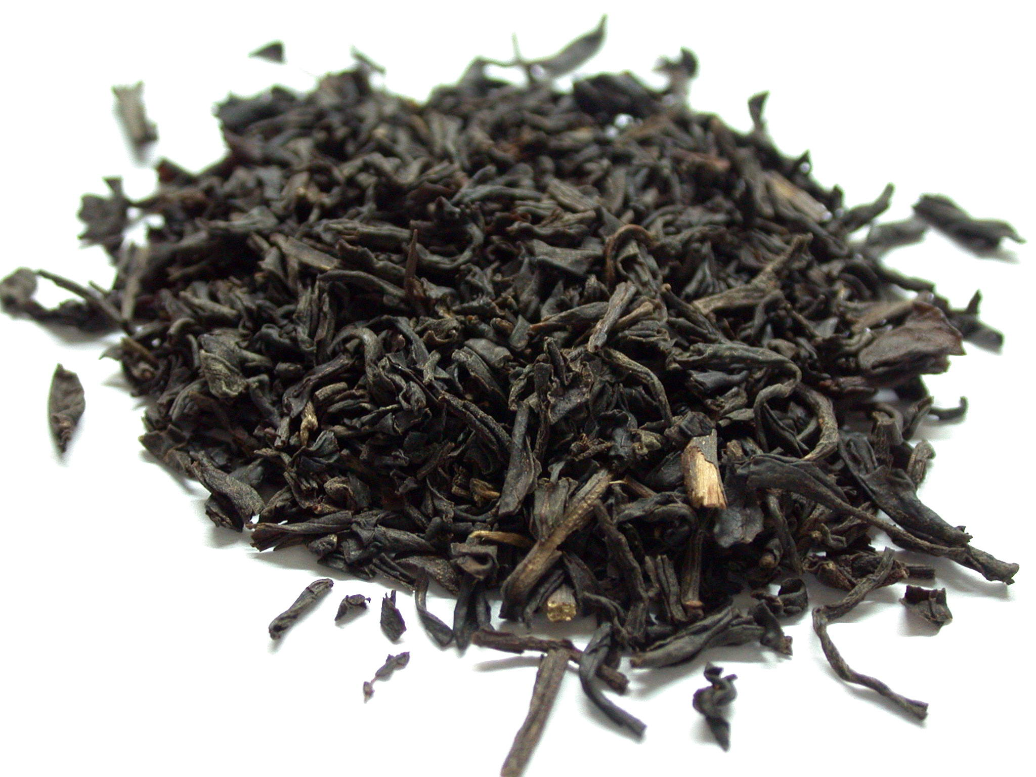 Whittard of Chelsea's Keemun tea leaves.